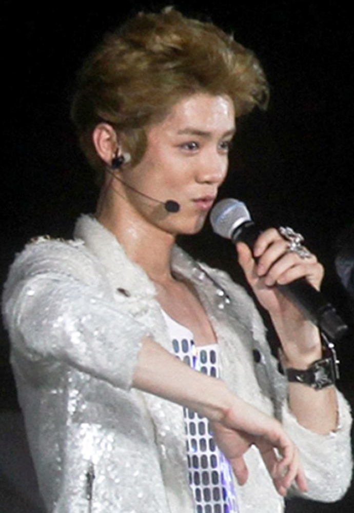 Lu Han performing at SM Town Live World Tour III in Singapore on November 23, 2012.